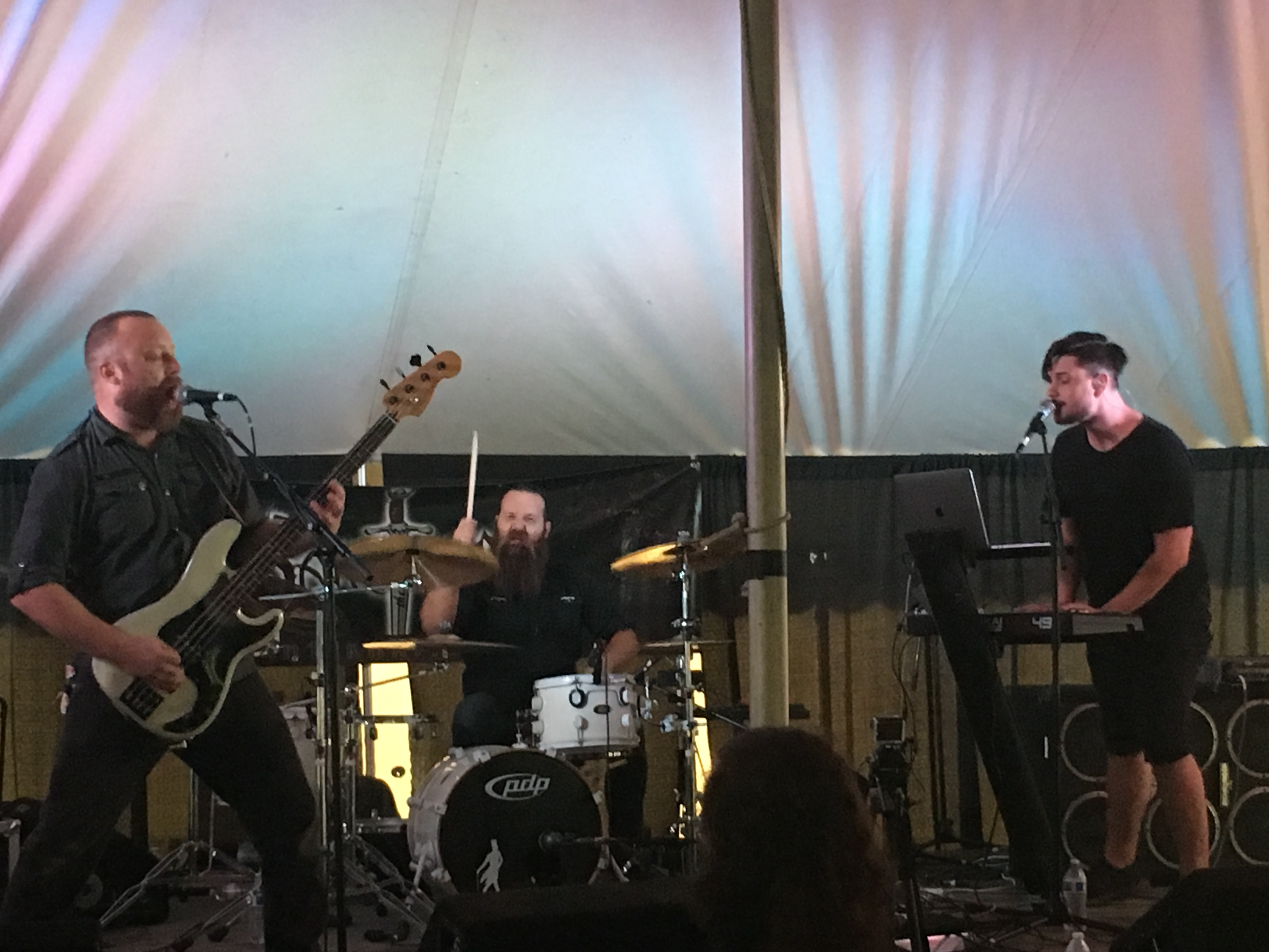 Death Therapy performing live at Audiofeed Festival on the Sanctuary Stage in 2019.